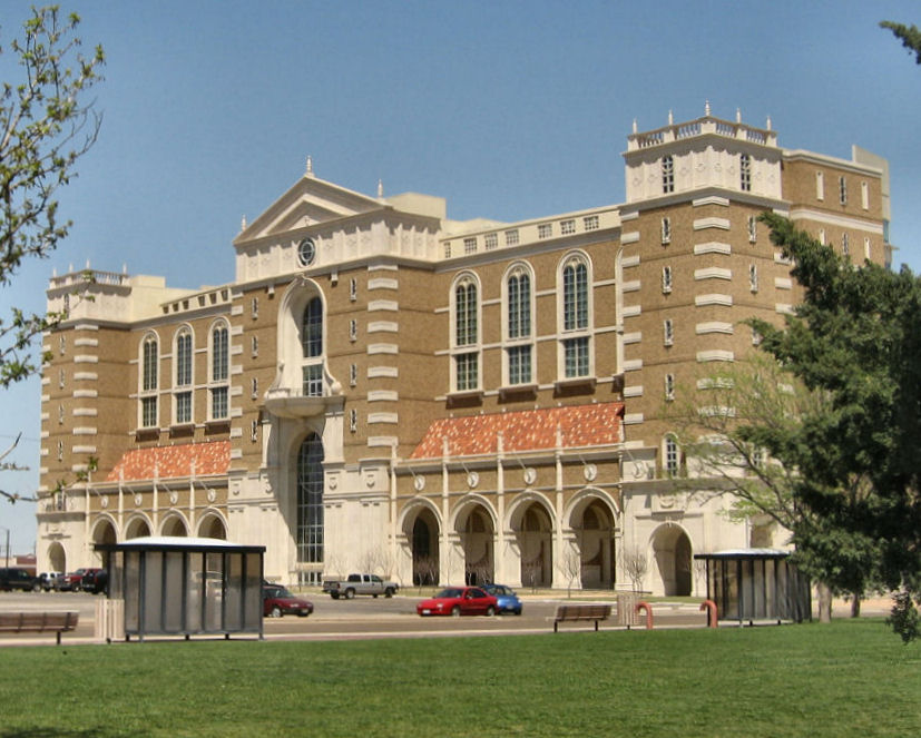 Jones AT&T Stadium, home of the Texas Tech Red Raiders, at Texas Tech University in Lubbock, Texas, USA. Category:Texas Tech University images